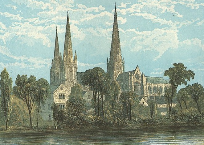 The view to Lichfield Cathedral from the southwest over the Minster Pool, 1880s - from an 1888 postcard.